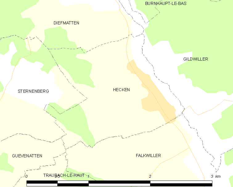 Map of French municipality